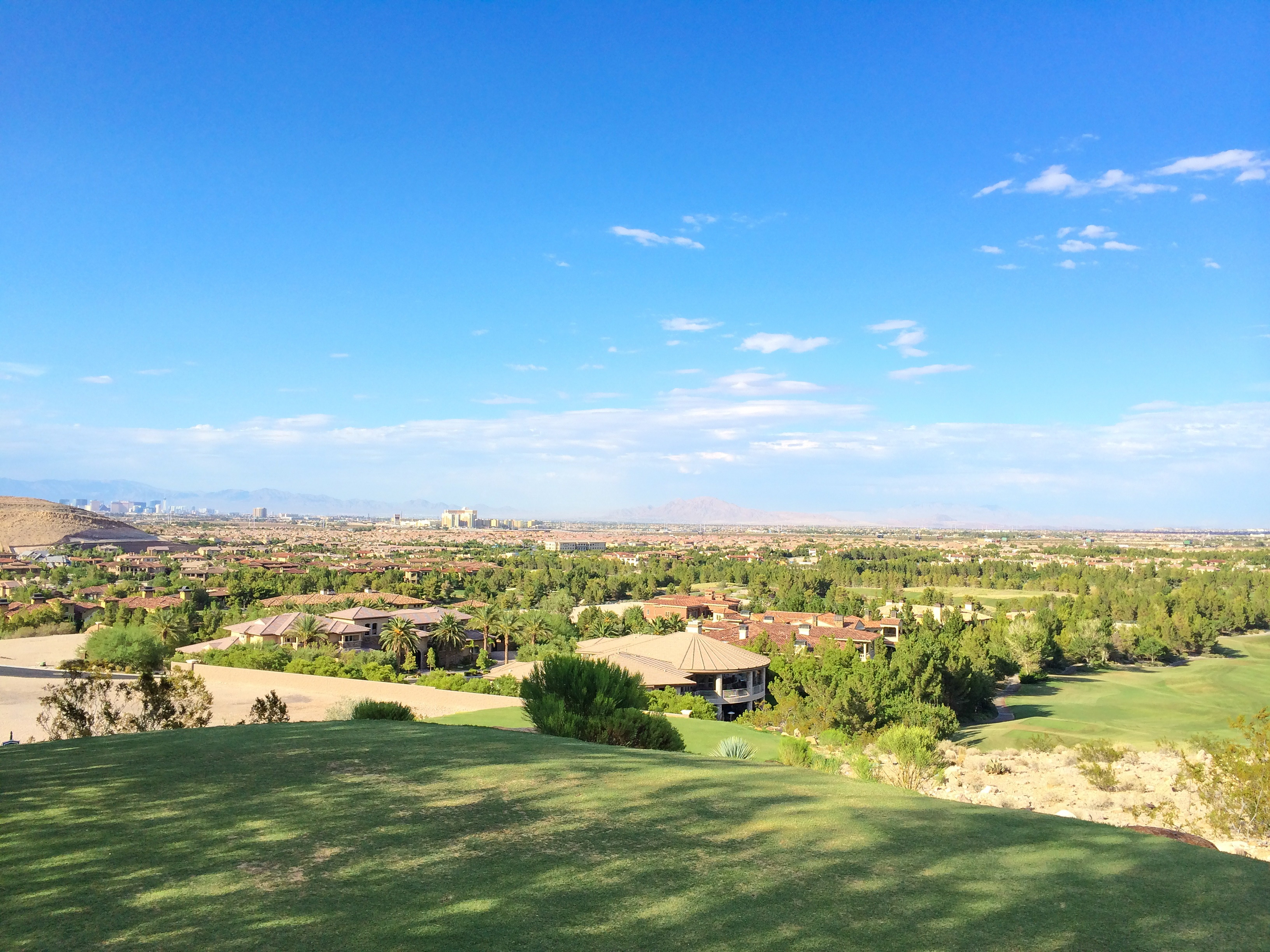 Enterprise, Nevada as seen in 2016 from the foothills of Southern Highlands.